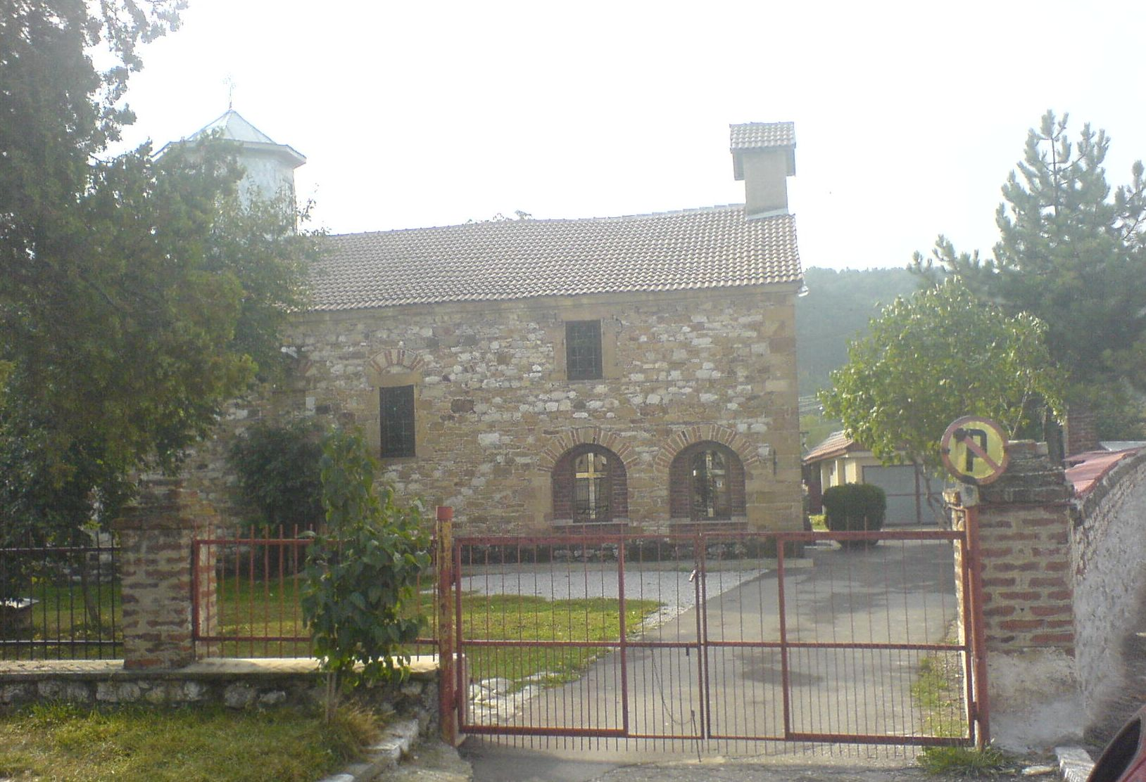 Church "Sain Cyril and Methodius" in Slivnitsa, Bulgaria